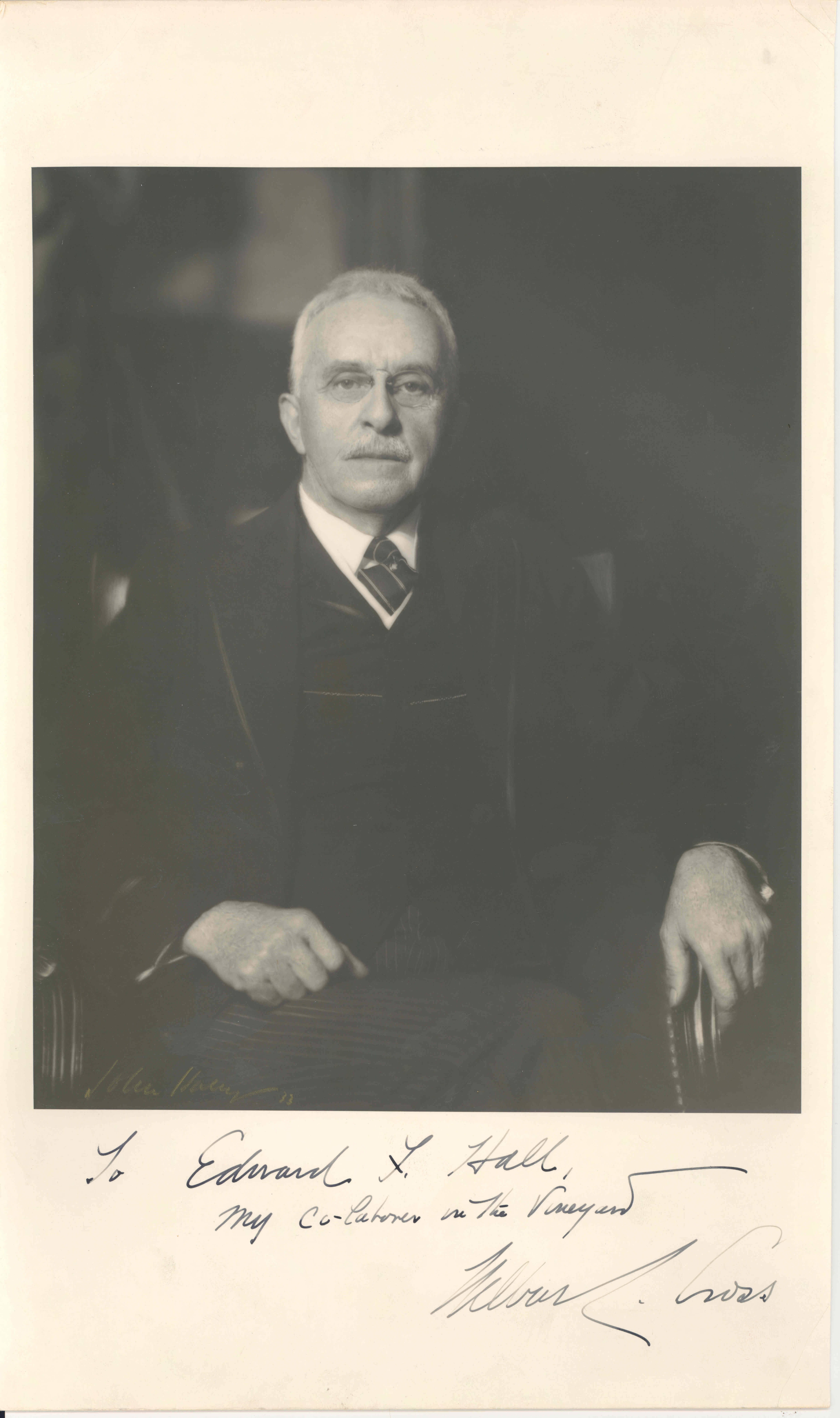 Portrait of Wilbur L. Cross, 71st Governor of Connecticut (1931-39).